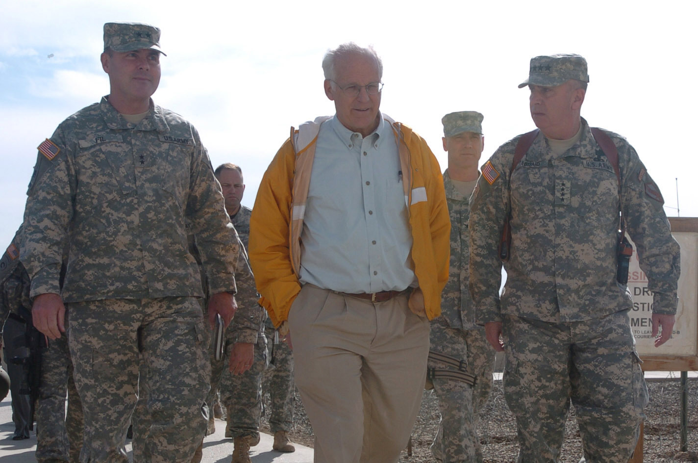 Connecticut Congressman Christopher Shays, is greeted by Maj. Gen. Joseph Fil Jr., commanding general of Multi-National Division – Baghdad and Gen. John Abizaid commanding general of United States Central Command at Camp Liberty, Iraq, Dec. 2.